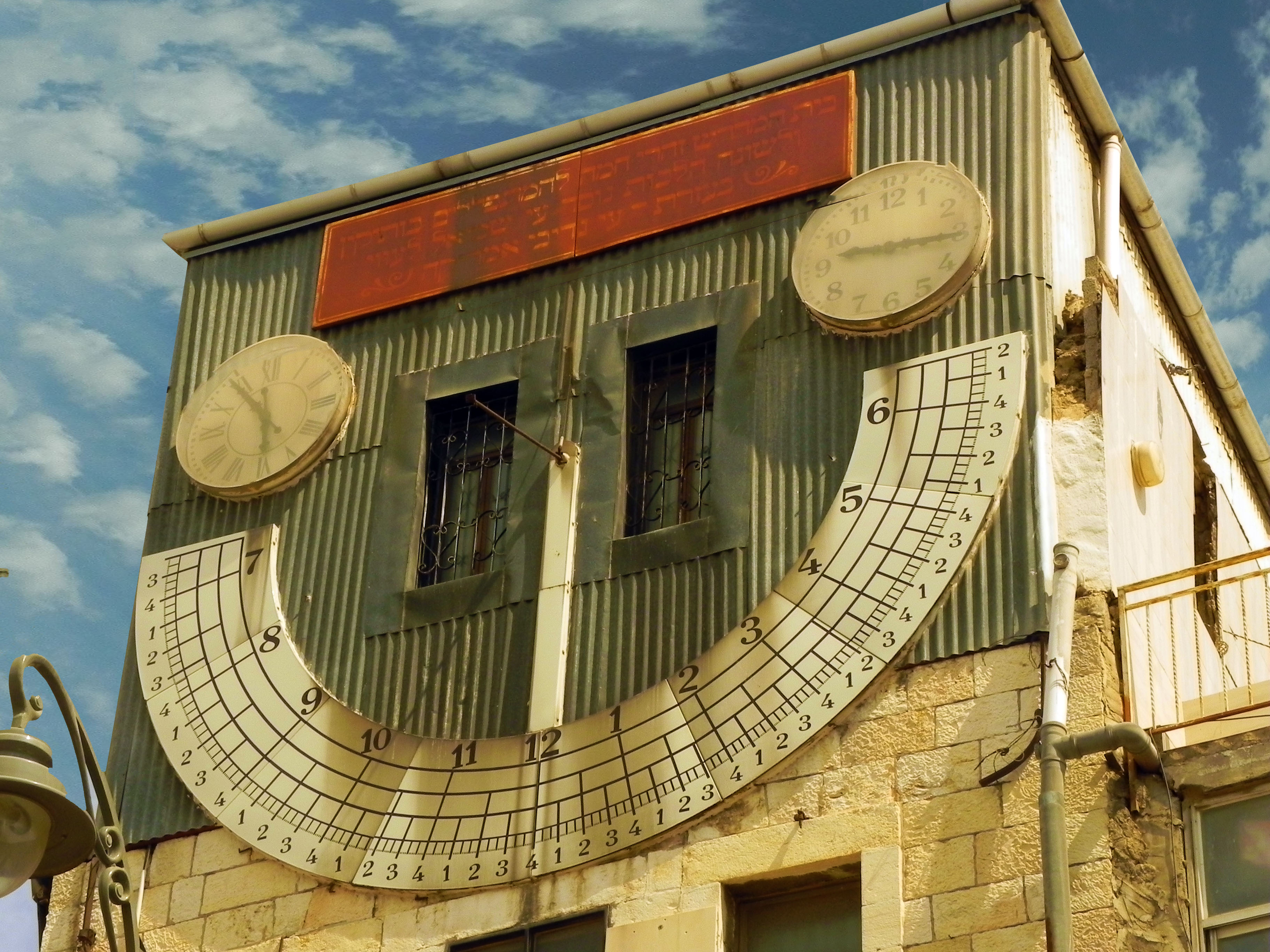 Sundial at the top of the Zoharei Hama Synagogue on Jaffa Road in Jerusalem, Israel